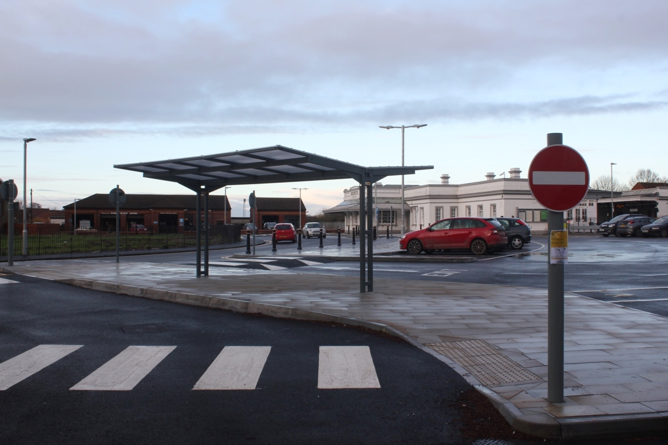 The car park at Bridgwater railway station which was being redeveloped in 2019. The shelter is intended for buses but when rail repalcements were neccessary in November they were unable to turn into the space so used the public bus stops in St John Street.